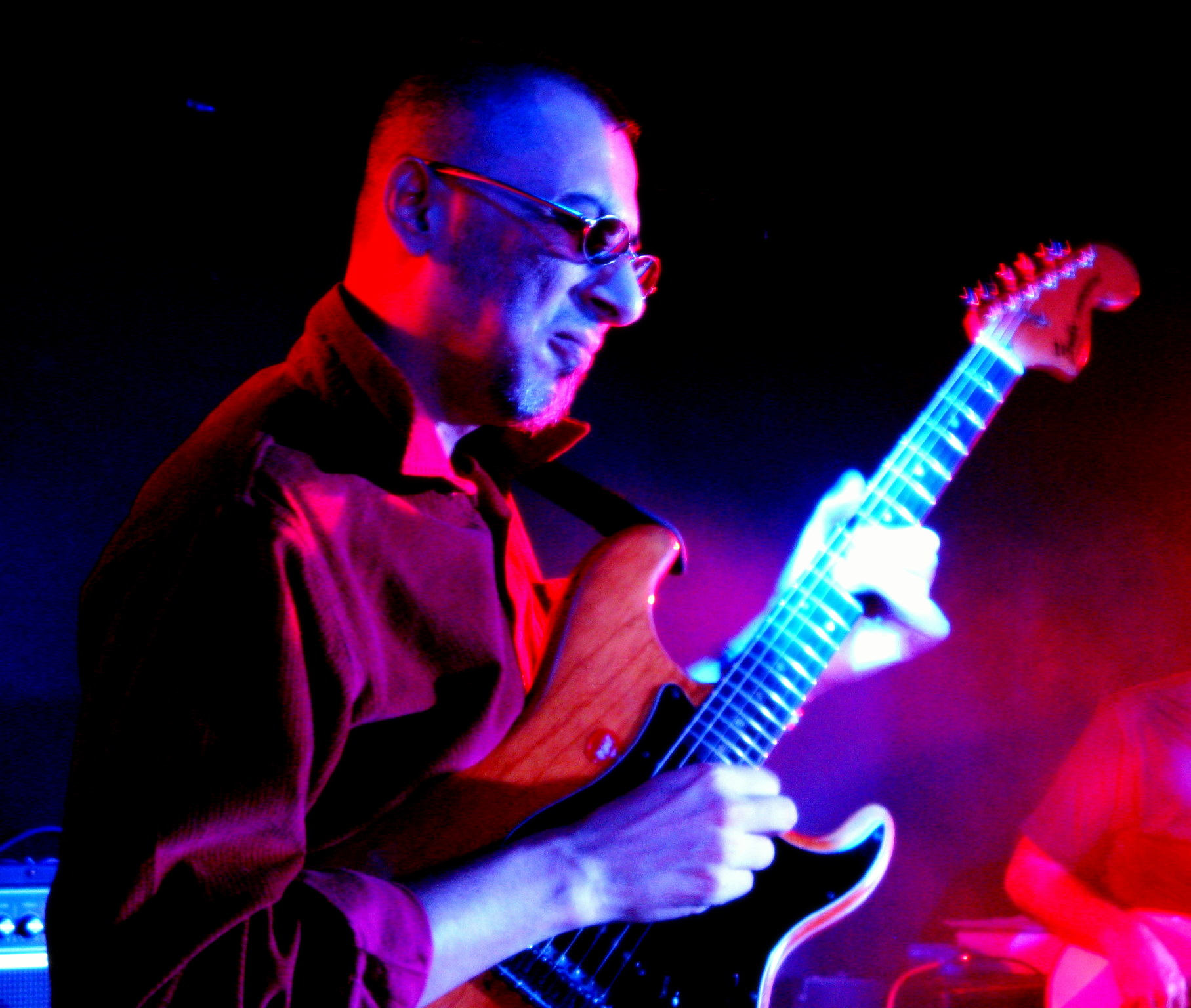 Amyt Data in Concert